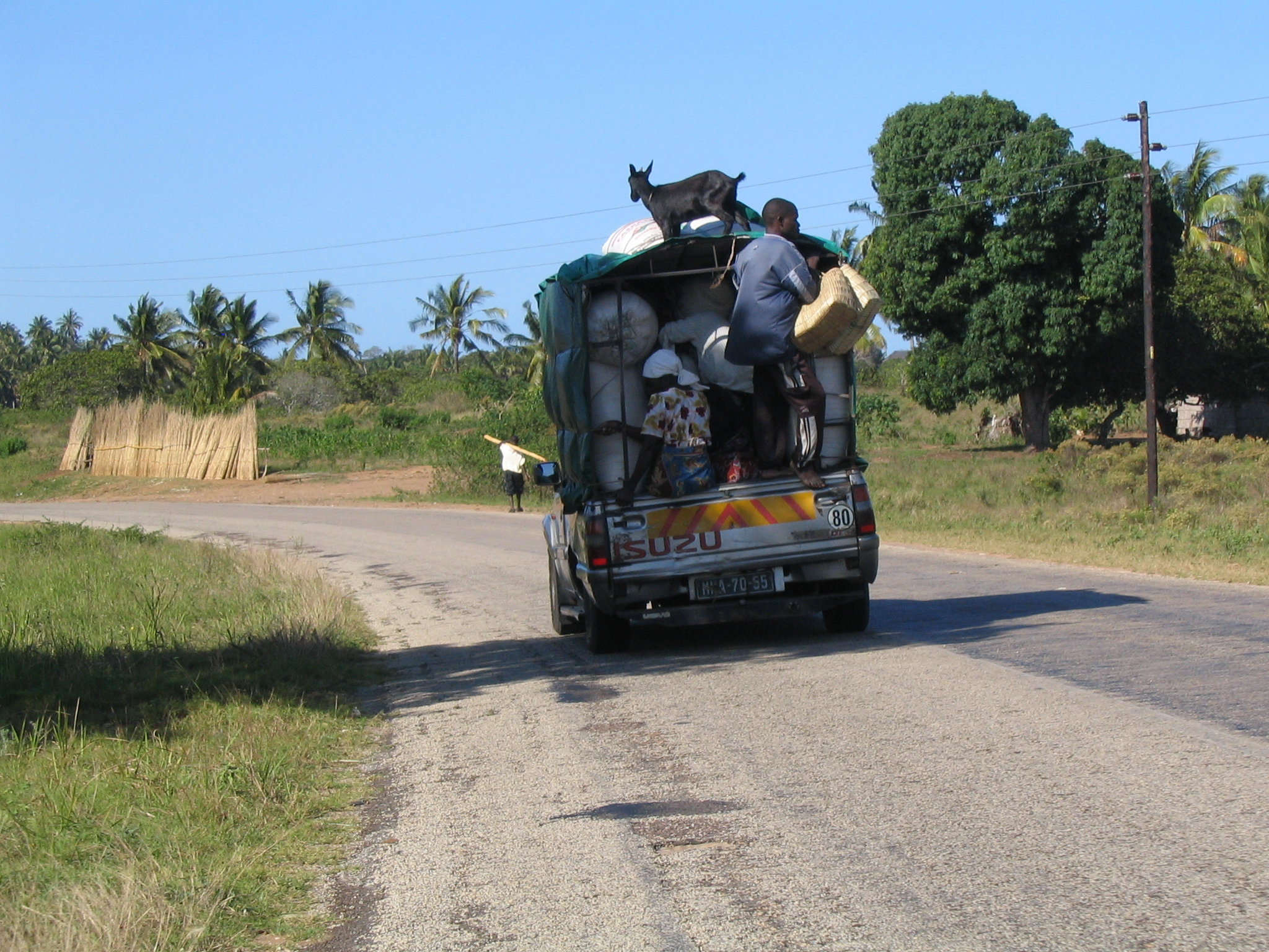 Typical overloaded truck in Mozambique